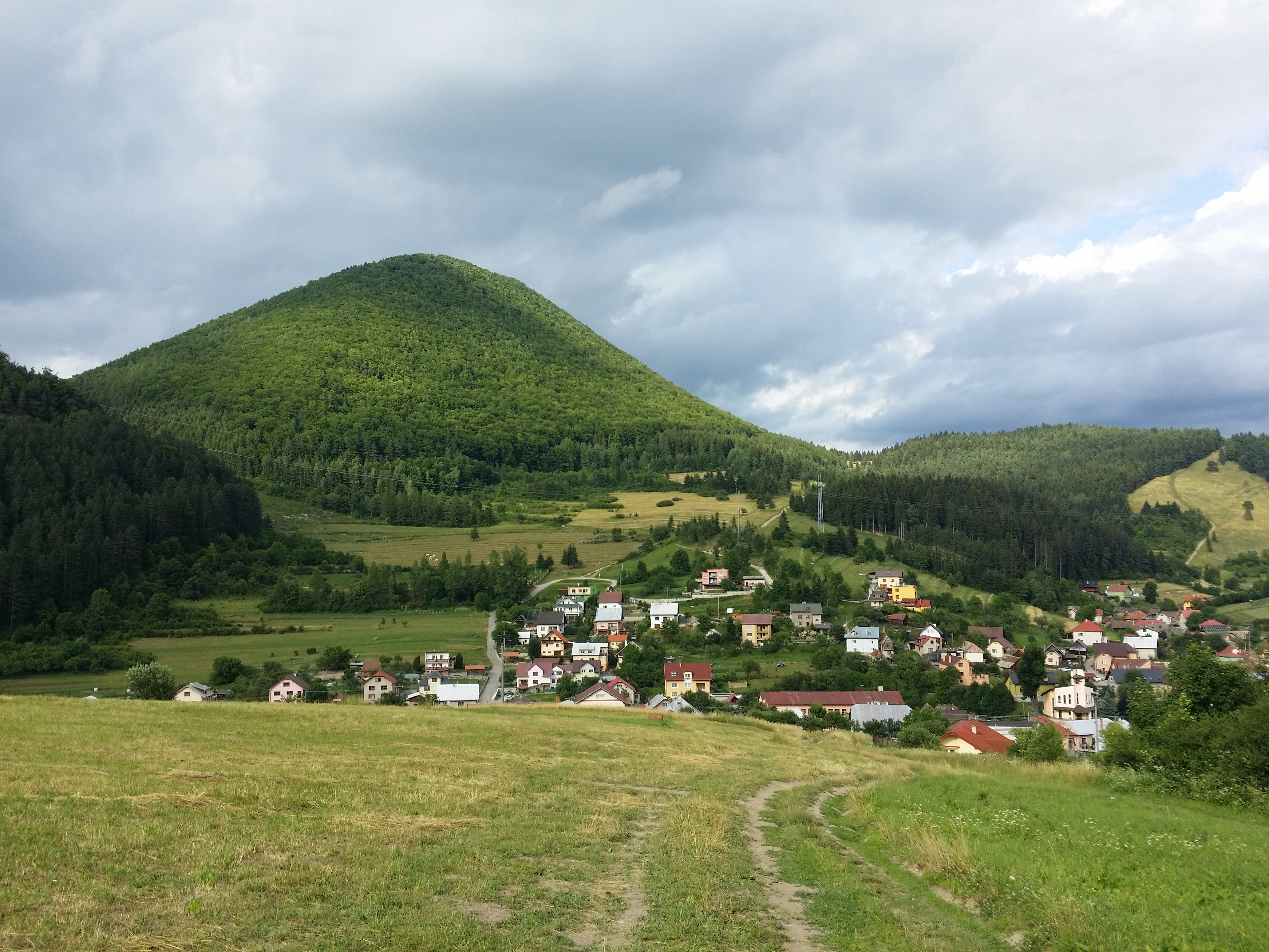 Snežnica (Slovakia, Kysucké Nové Mesto District) and Vreteň (820 m. n m.)